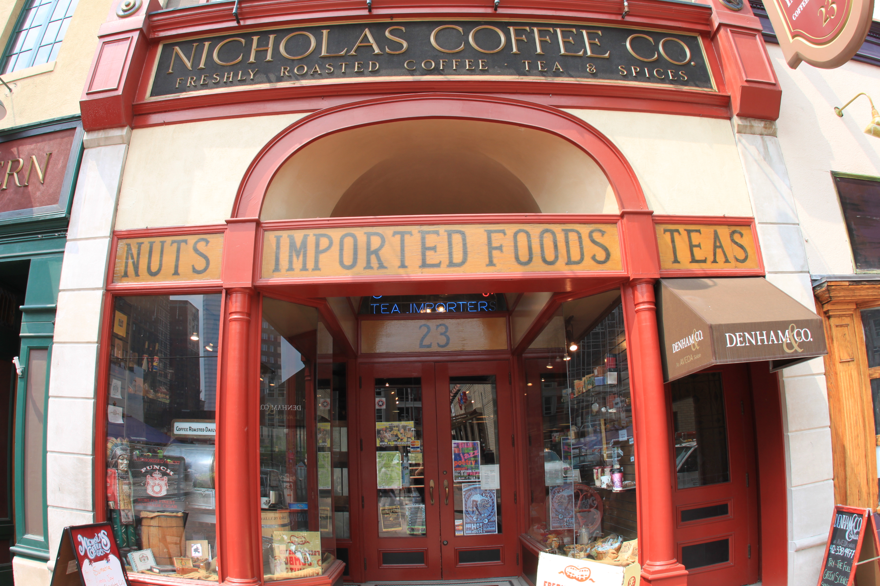 I liked this place, as I walked into this store and smell very fresh coffee beans. More than that, I could buy any kinds of nuts (honey peanuts into brown bag, anyone?) import tea, coffee and coffee related accessories. Located in Market Square, downtown Pittsburgh.